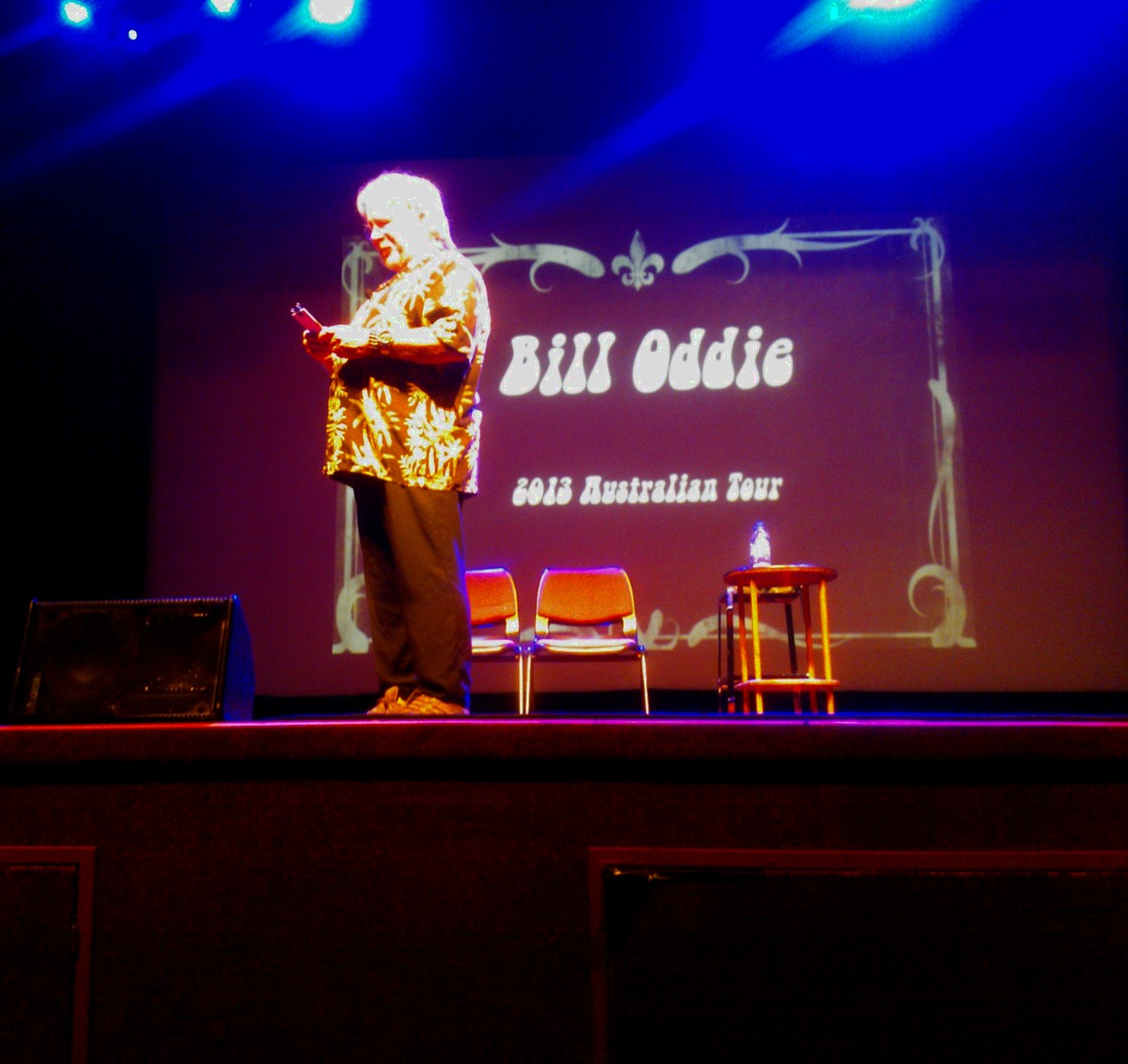 Bill Oddie performing live at the Astor Theatre in Perth, Western Australia, 27 June 2013.